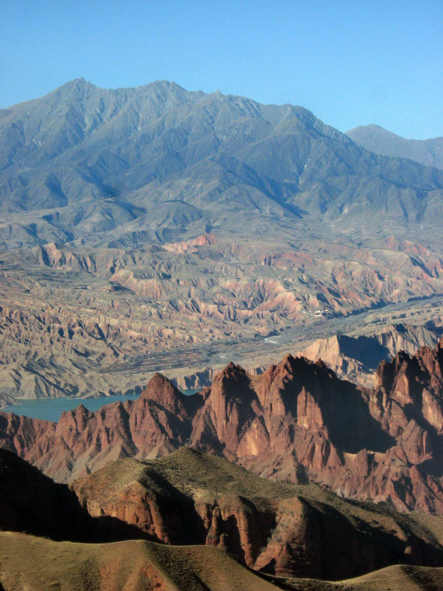 Forest park Khamra and LIjiaxia Dam